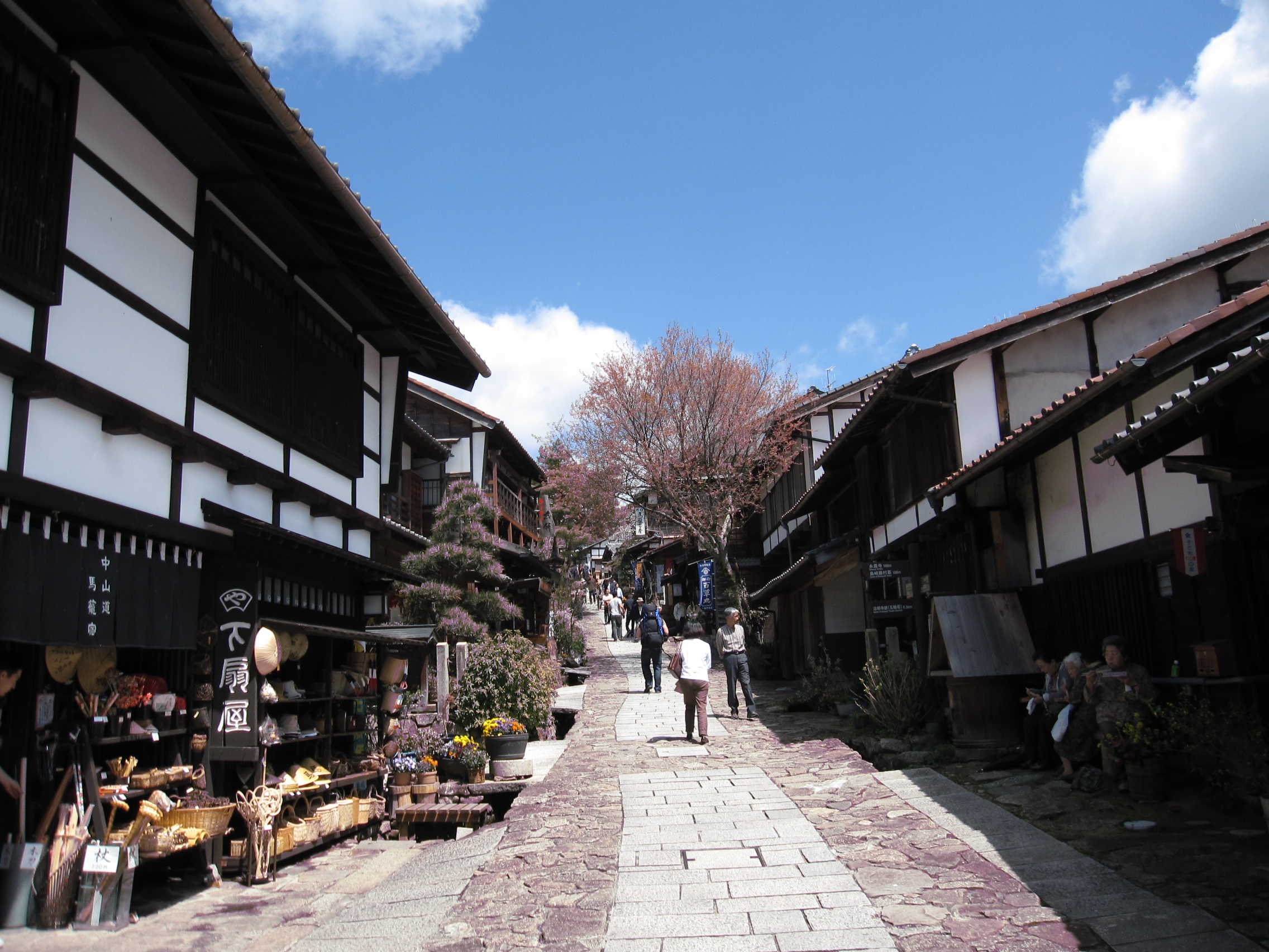 Magome-juku (馬籠宿) in Gifu Prefecture, central Japan, in Spring of 2009 with cherry blosoms.